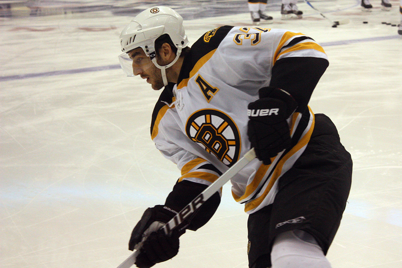 Patrice Bergeron (March 9th 2010)